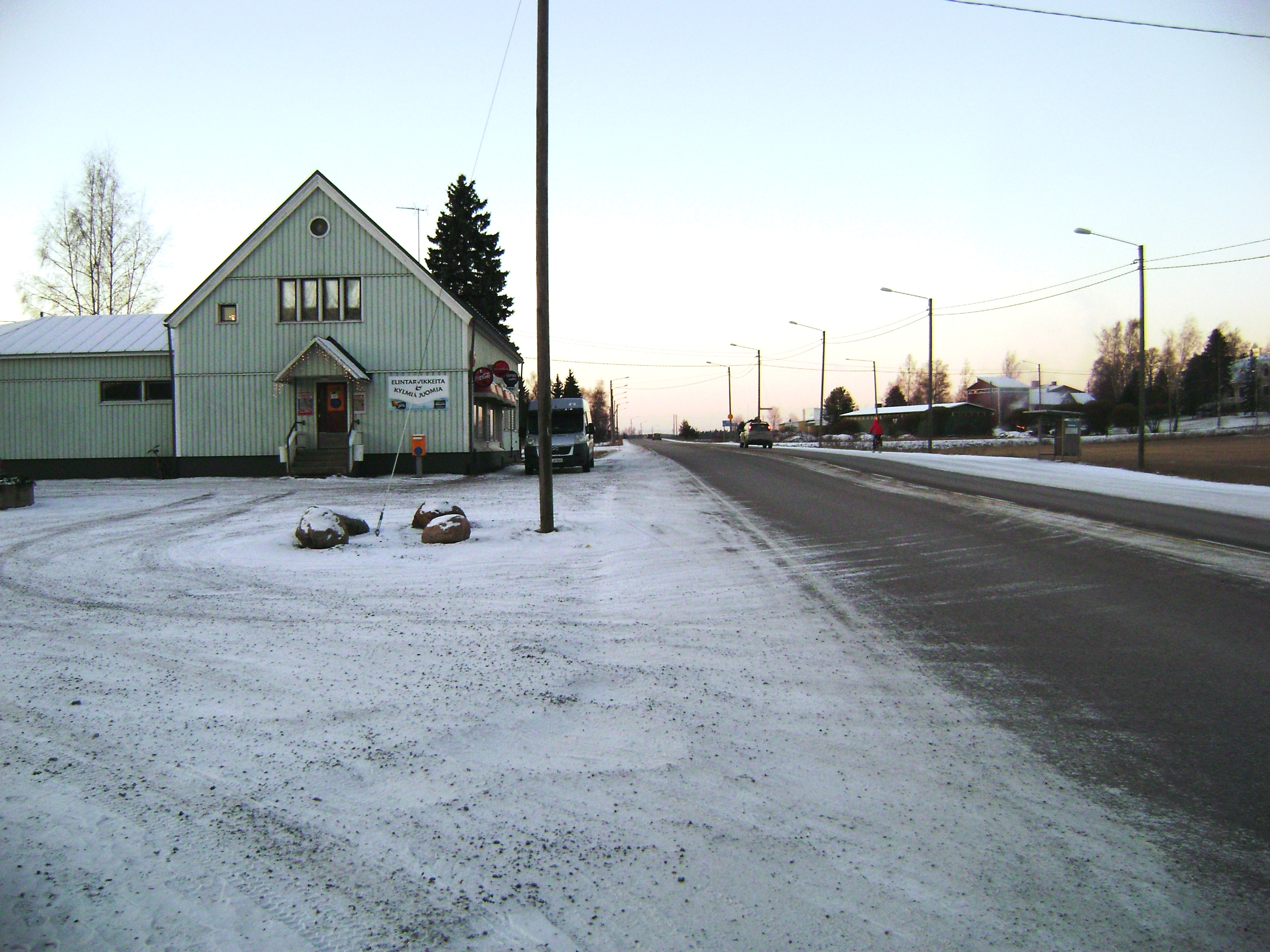 Perttula kiosk in Nurmijärvi.